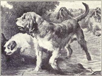 Otterhound from 1915